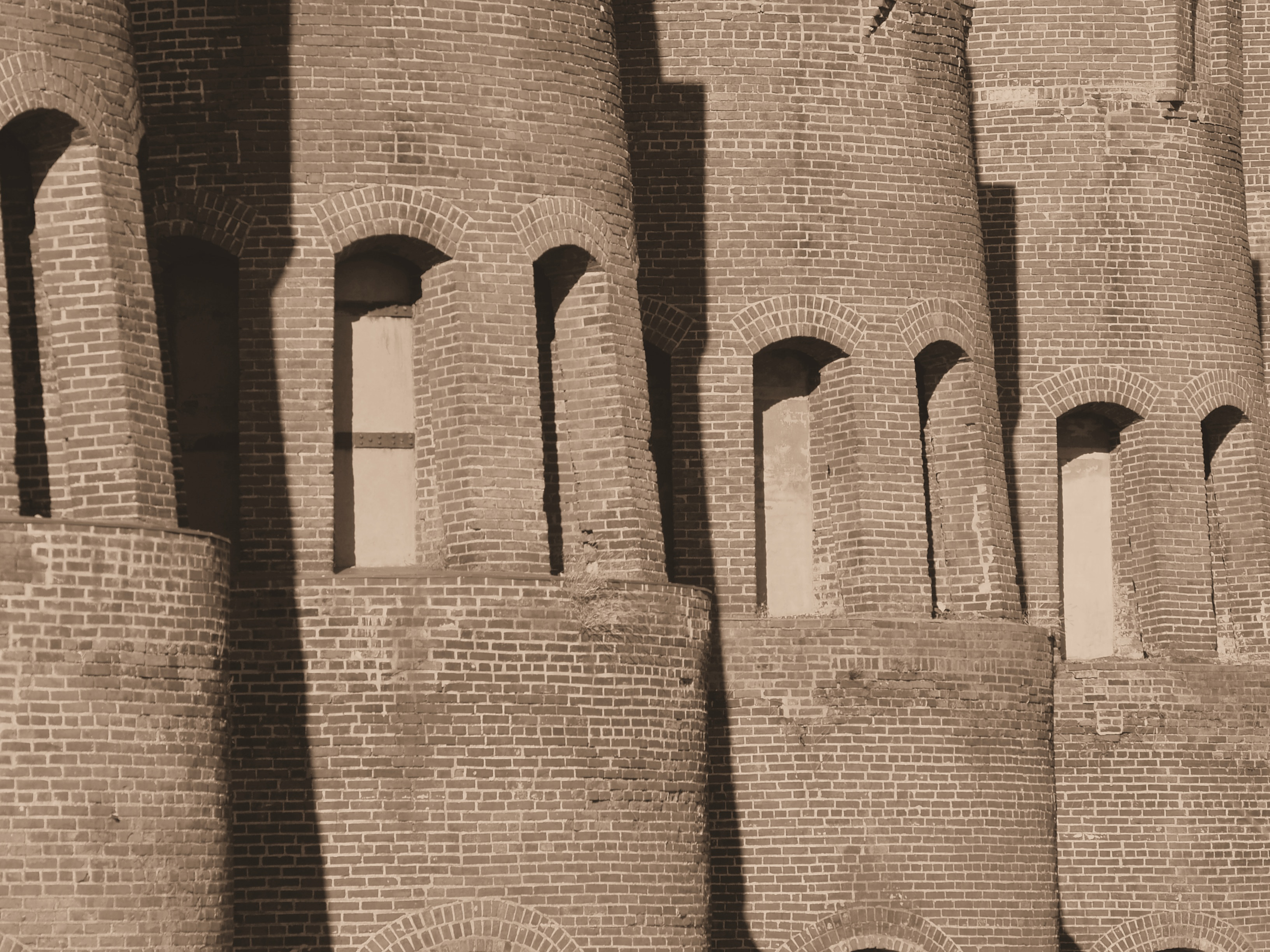 Abandoned cement kilns of the Coplay Cement Company along the right-of-way of the Ironton Railroad (now the Ironton Rail Trail) at Coplay, Pennsylvania.